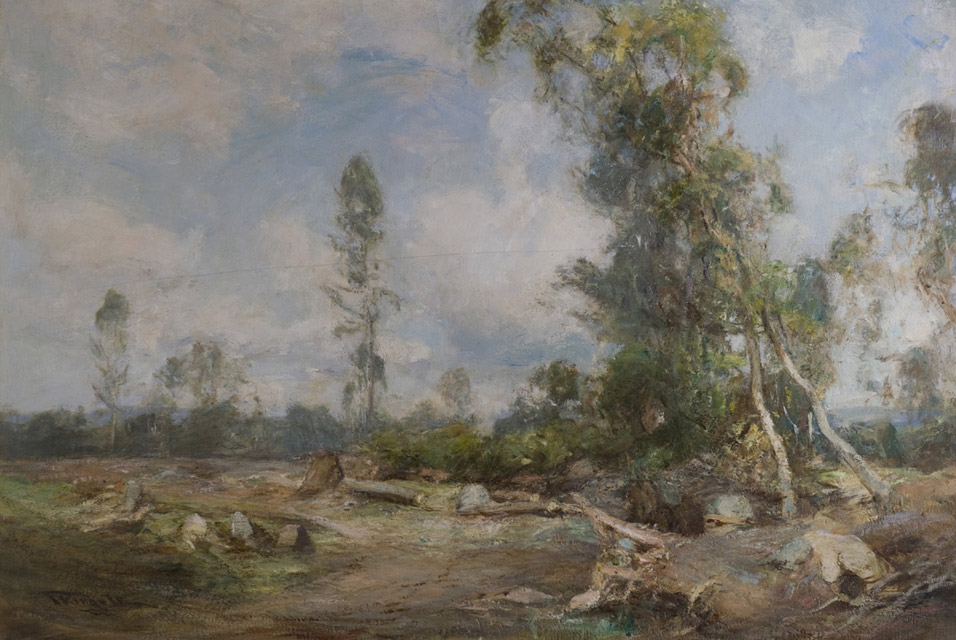 Sir James Lawton Wingate RSA (British, 1846-1924), river landscape